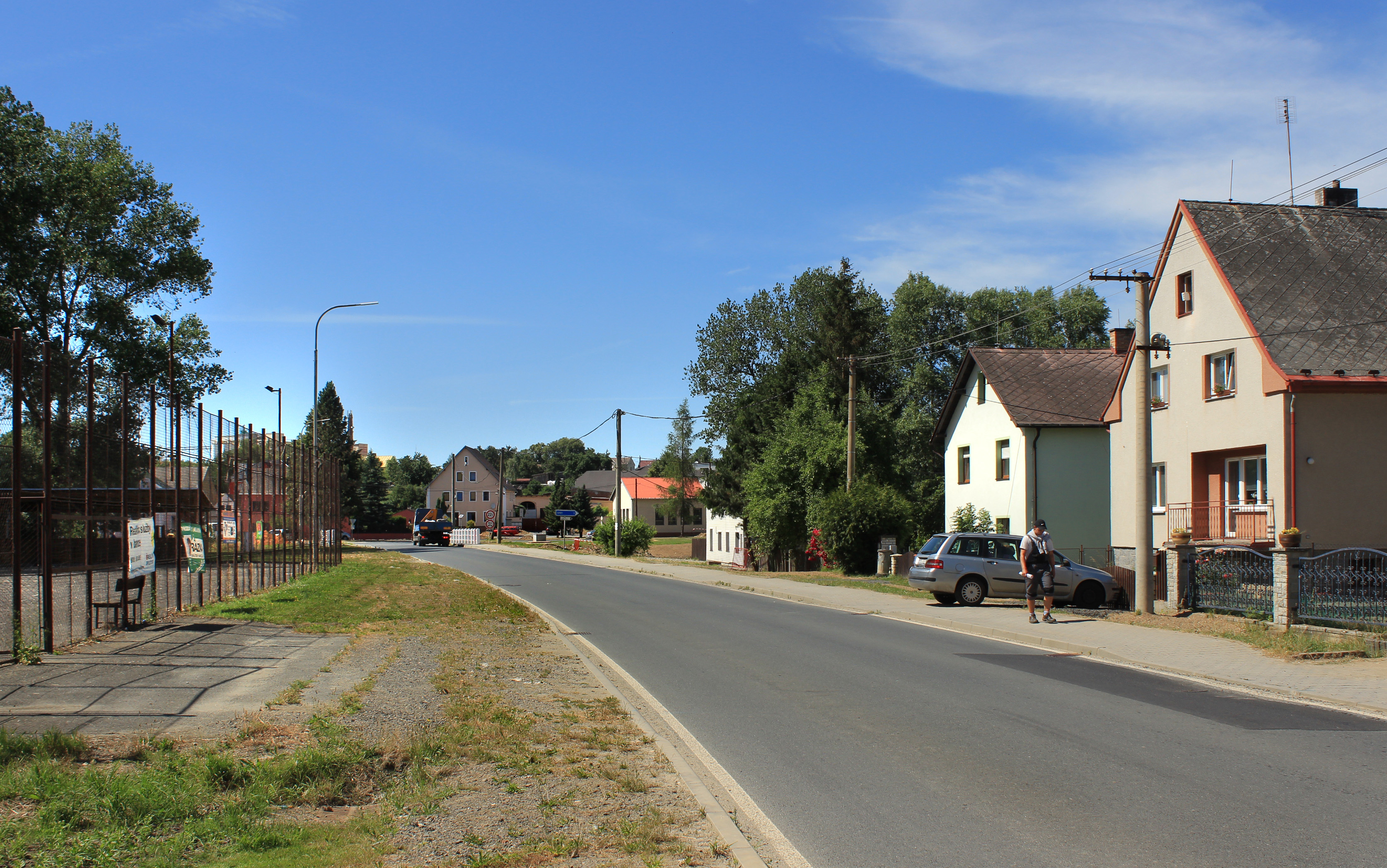 Road No 196 in Meclov, Czech Republic.